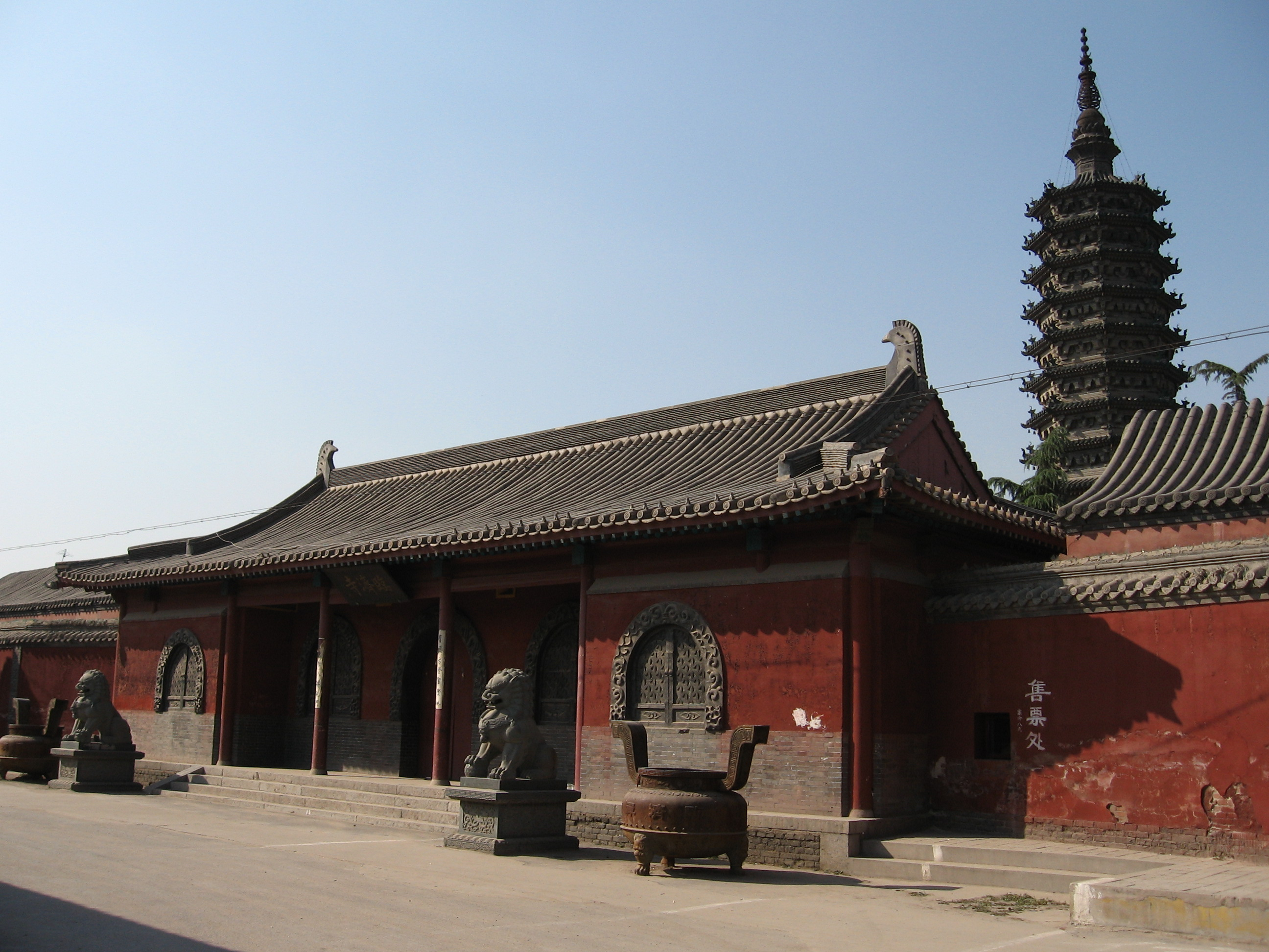 The gate of Linji monastery in Zhengding Hebei,China.